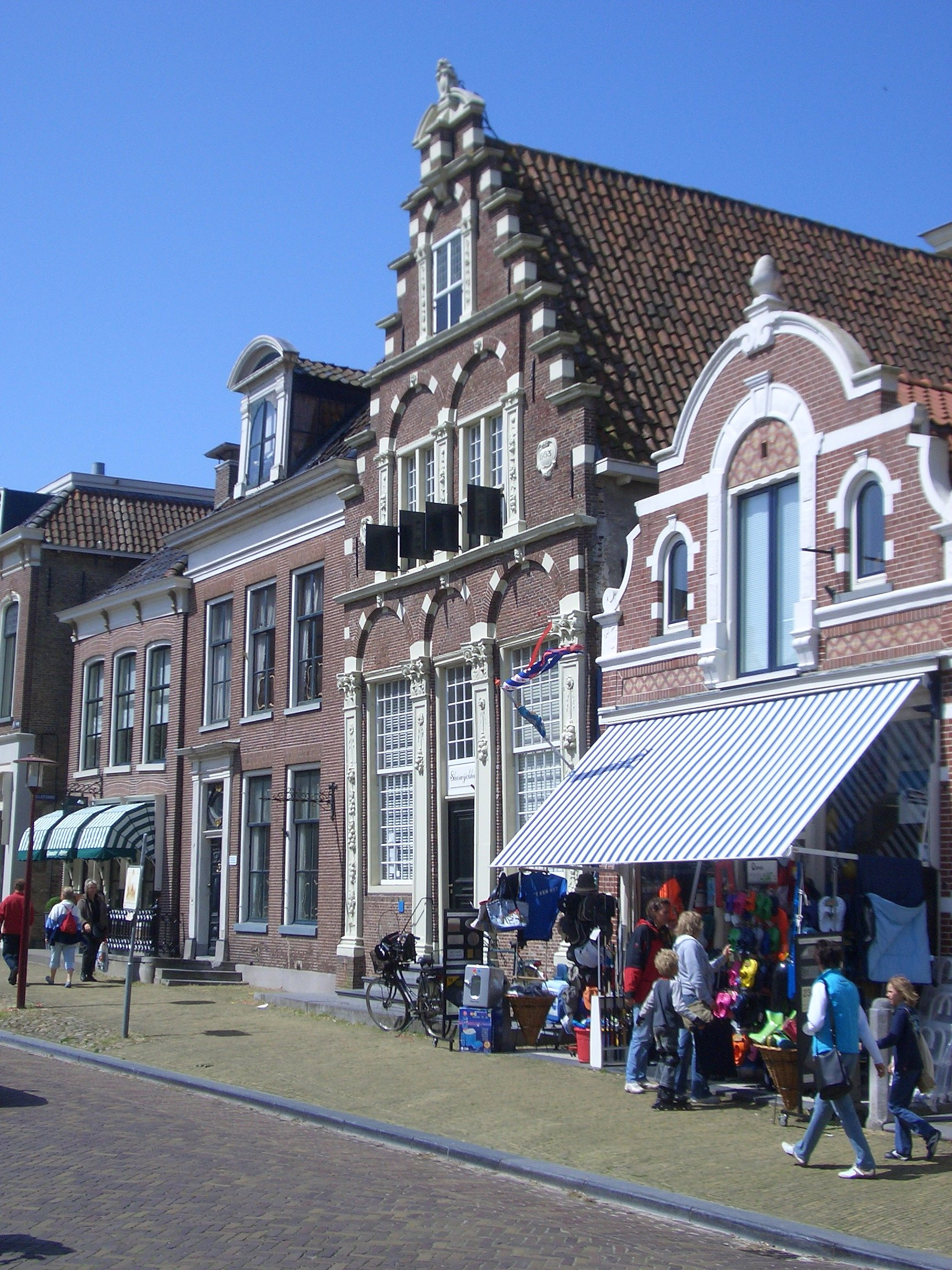 Main street in Workum (the Netherlands) near the marketplace